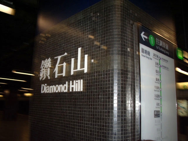 MTR Hong Kong, Diamond Hill station